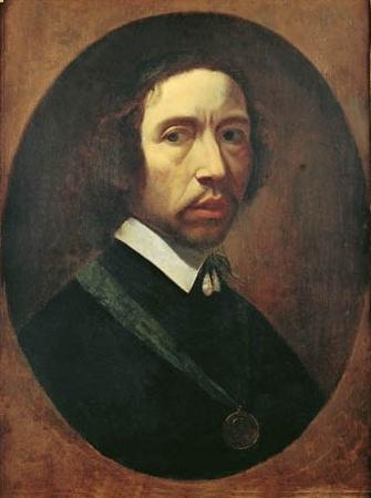 A later selfportrait in his atelier shows a mirror image of this painting on the wall.